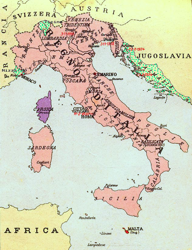 Map of Kingdom of Italy (1919) showing the areas claimed by Irredentism:in red Malta, in purple Corsica, in yellow with green points Dalmatia, Ticino and Nizzardo. I have used as a basic map an old map from an Italian geography and history school book of 1935 "Scuole Medie Inferiori", and I have written and painted on it.Cropped caption: L’ Italia dopo la Guerra 1915-1918